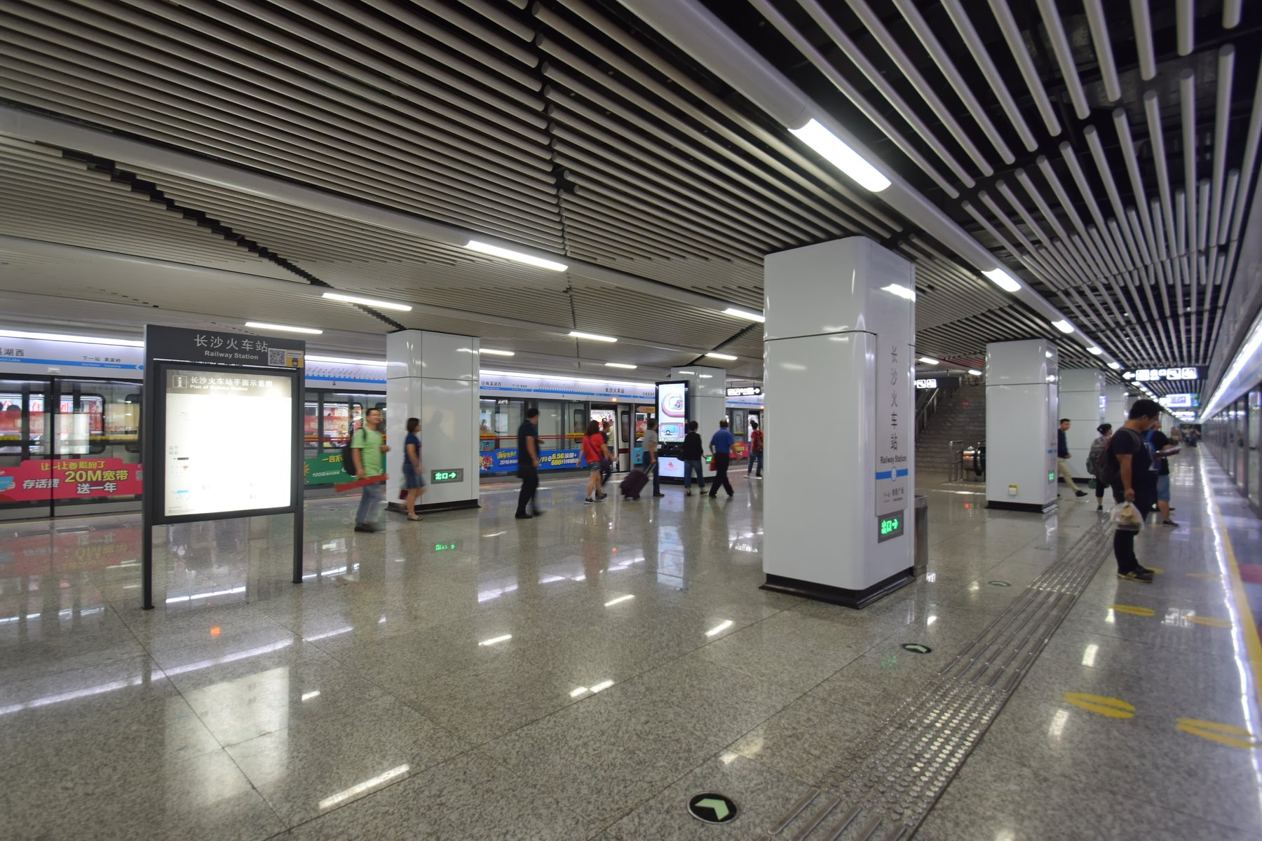 Line 2 Platform of Railway Station, Changsha Metro